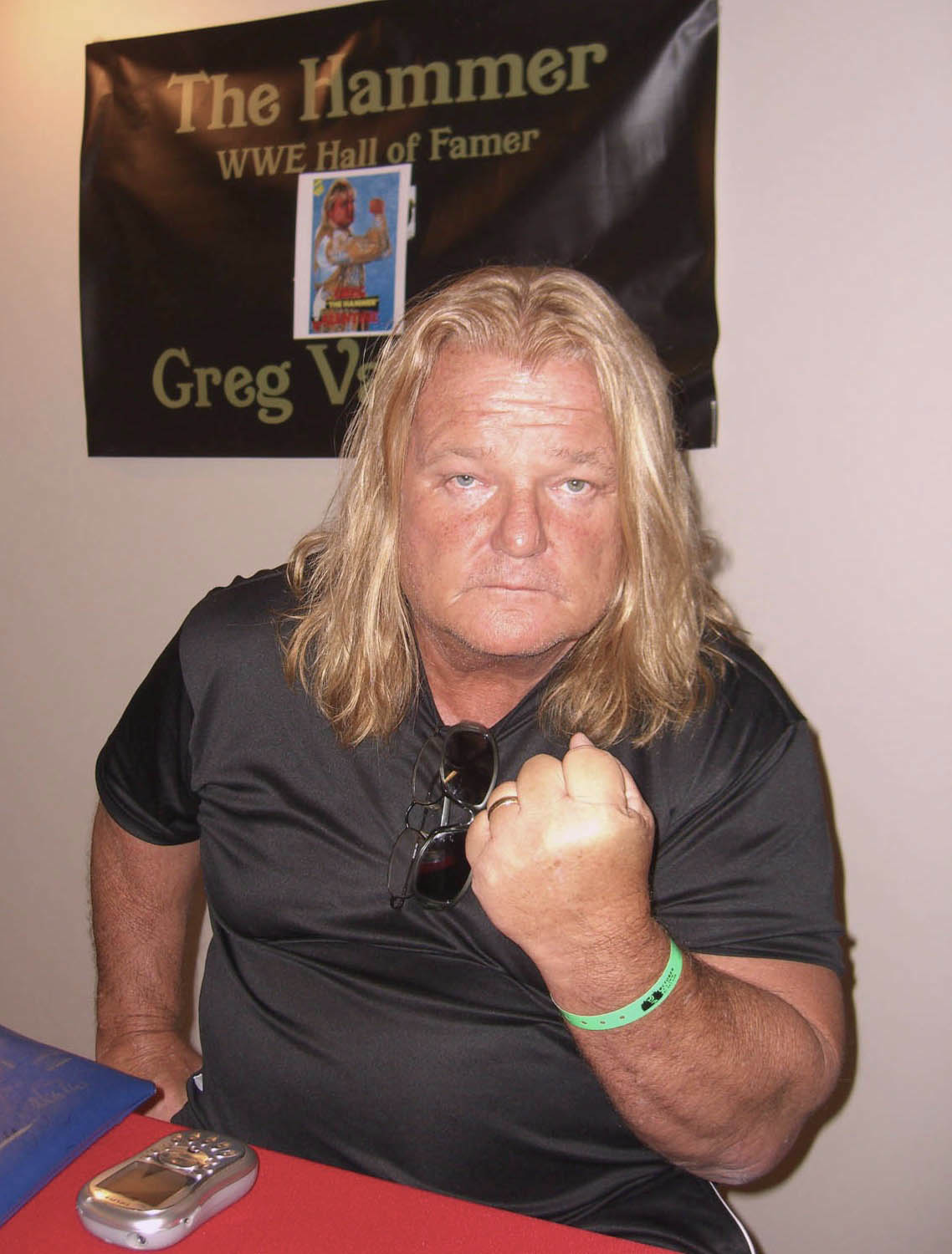 Professional wrestler Greg Valentine at the Big Apple Convention in Manhattan, October 1, 2010. ] This photo was created by Luigi Novi. It is not in the public domain, and use of this file outside of the licensing terms is a copyright violation.